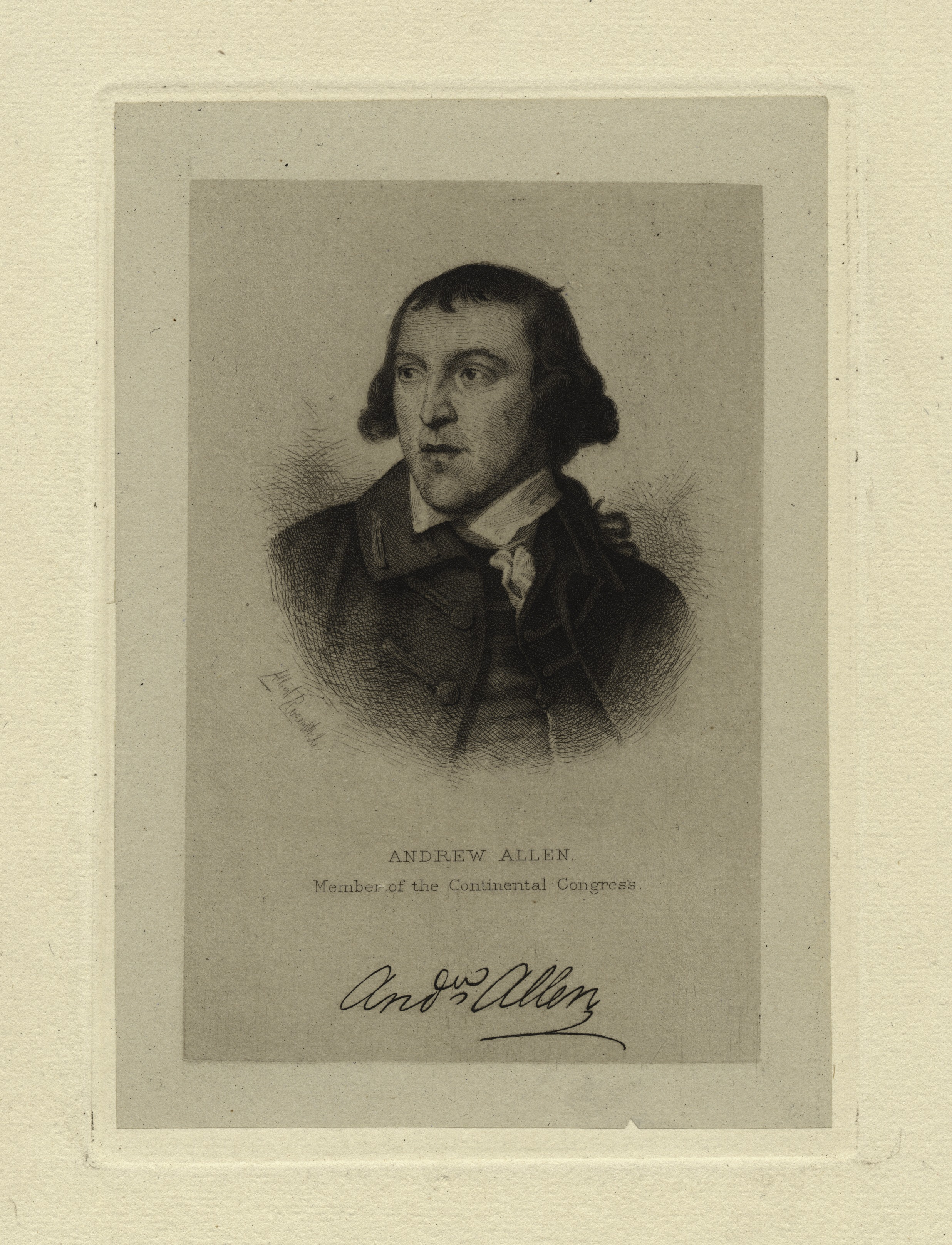 Printmakers include William Birch, R.W. Dodson, H.B. Hall, J.B. Longacre, Albert Rosenthal, Max Rosenthal and Samuel Sartain. Draughtsman is David McNeely Stauffer. Title devised by cataloger. Citation/reference : EM811